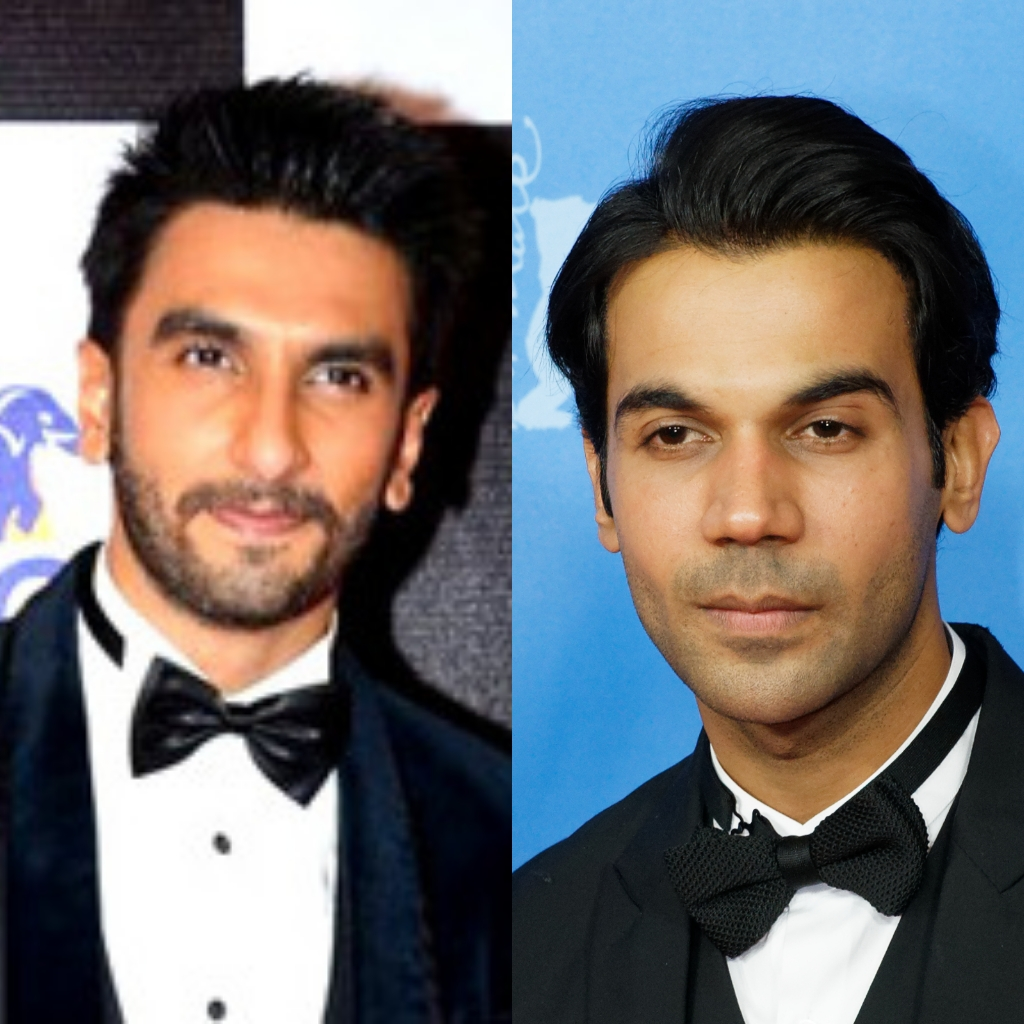 Indian actors Ranveer Singh and Rajkummar Rao (montage to illustrate their "tie" win of Screen Award)